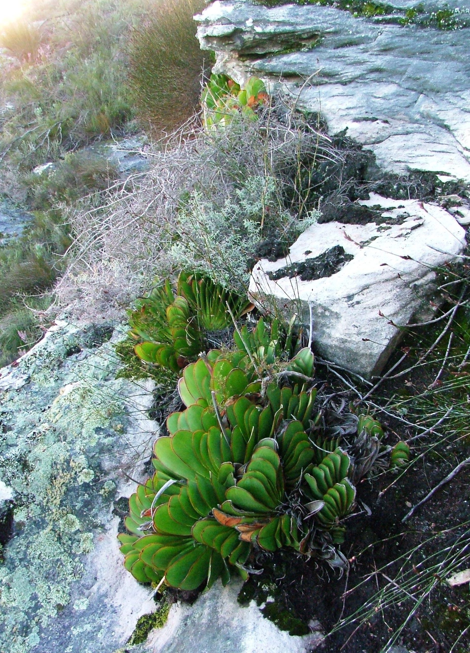 Aloe haemanthifolia. Photo from a mountain top near Stellenbosch. South Africa.